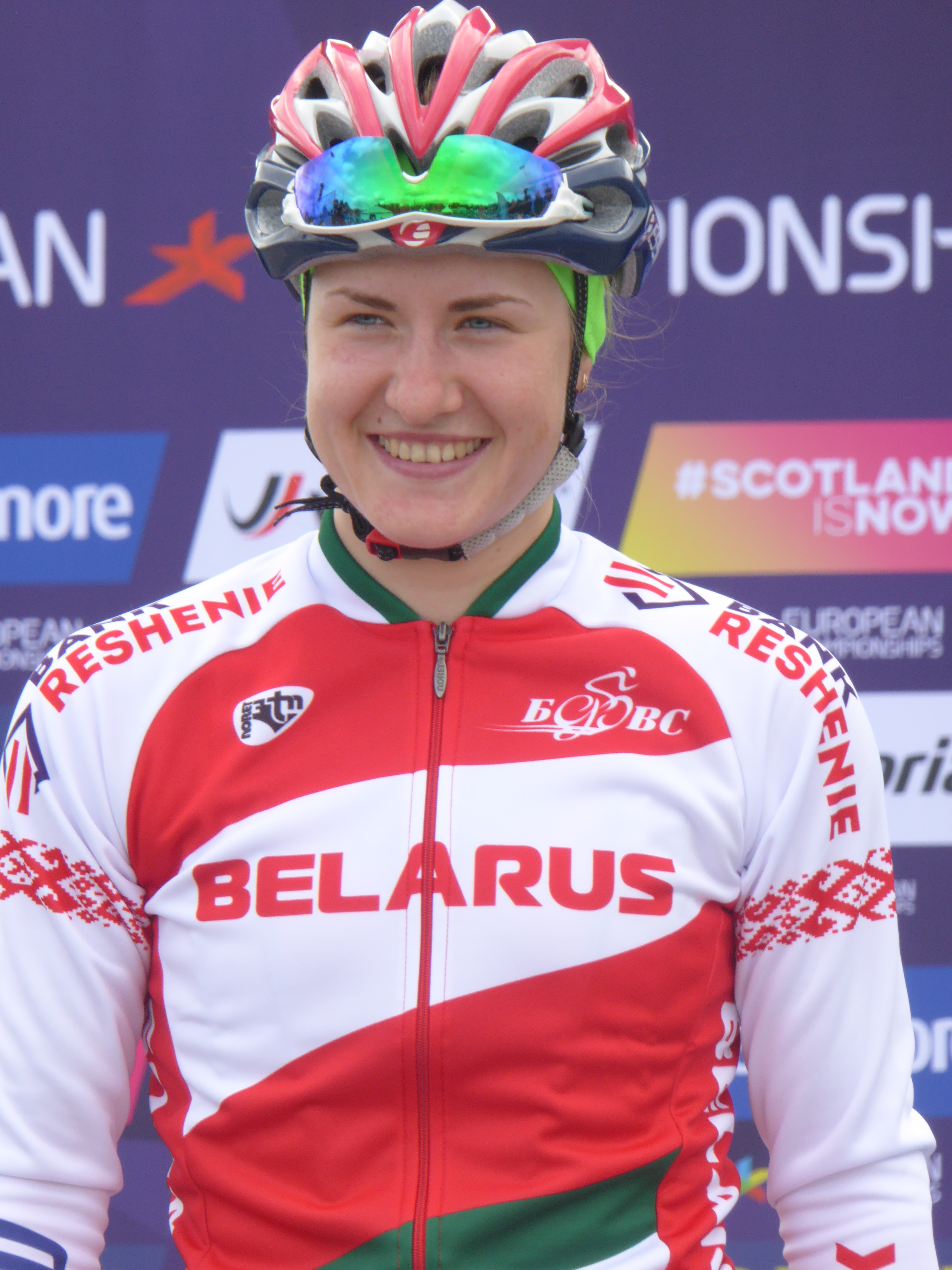 Anastasiya Dzedzikava (Belarus), prior to the women's road race at the 2018 UEC European Road Cycling Championships in Glasgow.